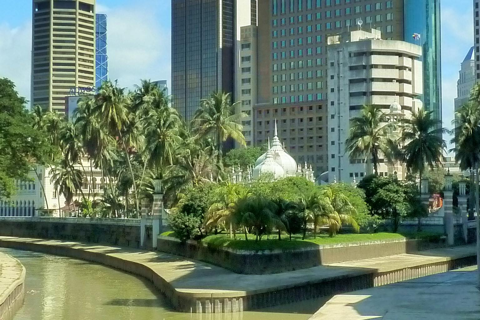 View of Masjid Jamek and the confluence of Gombak and Klang rivers in Kuala Lumpur, Malaysia.